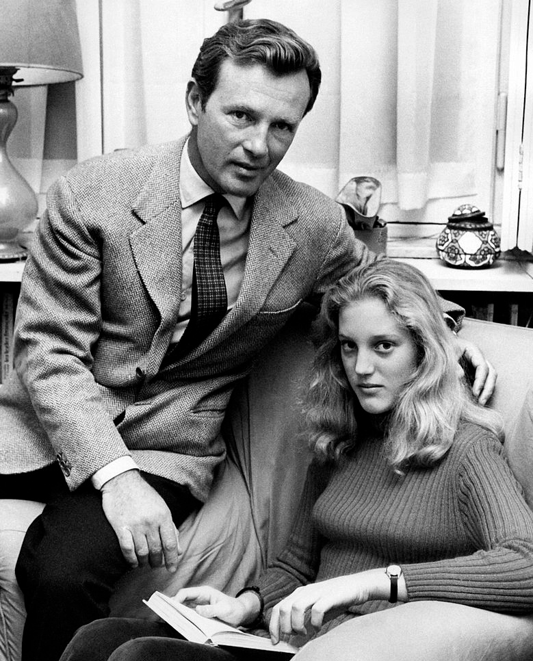 Jacques Sernas and his fifteen-year-old daughter Francesca are seated in an armchair; the girl holds a book in her hands. Rome, 1971